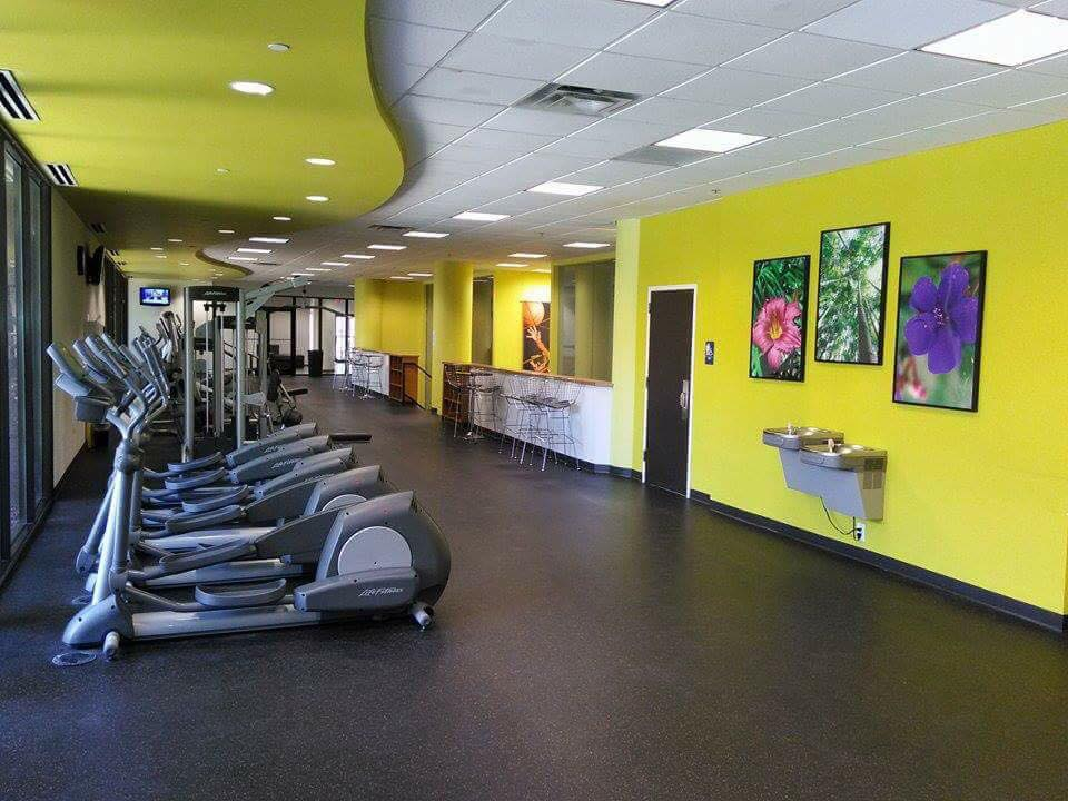 Rare picture of an empty Gym in Sydney Australia taken by a cleaning company worker on new years day when it was completely empty.